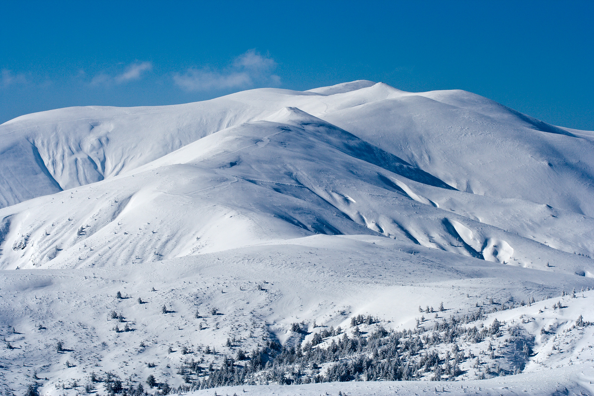 The Ruen summit in Osogovo mountain, Bulgaria